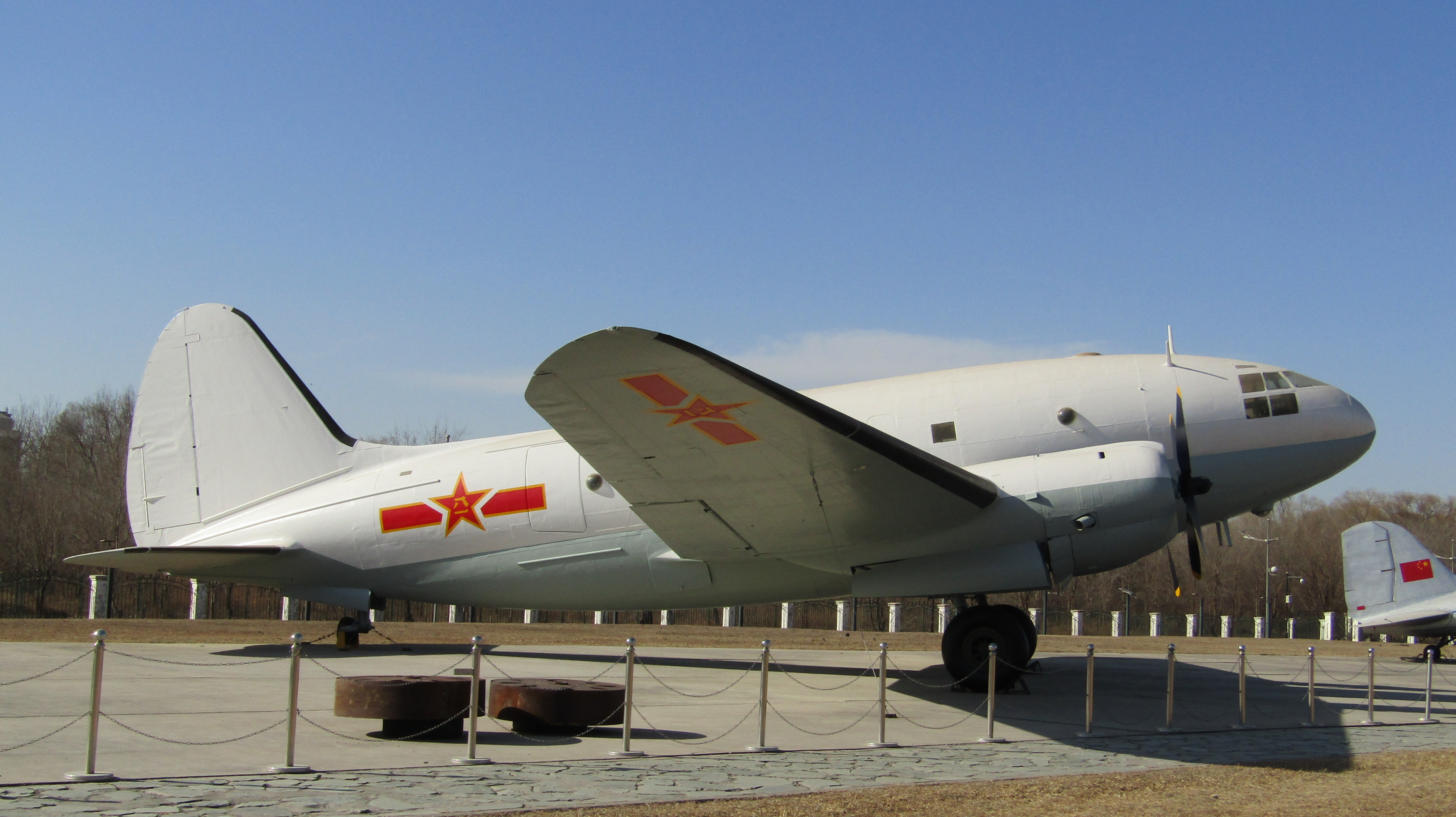 Curtiss C-46 Commando at Beijing Civil Aviation Museum